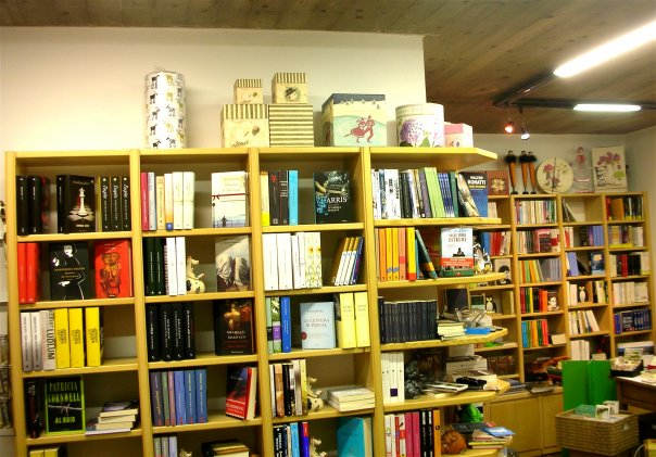 Bookshop in Bormio, Italy